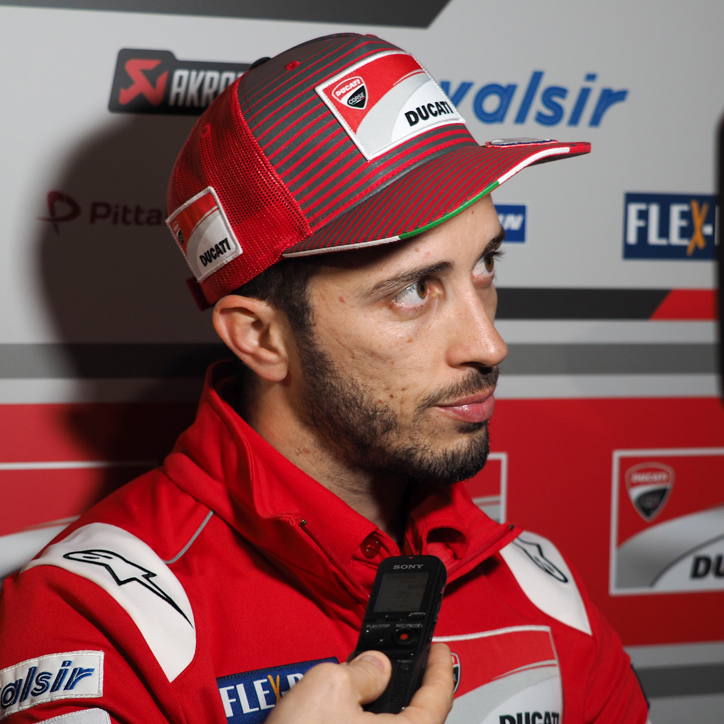 Italian MotoGP racer Andrea Dovizioso talks to media on the second day of the 2018 pre-season test at Qatar's Losail International Circuit